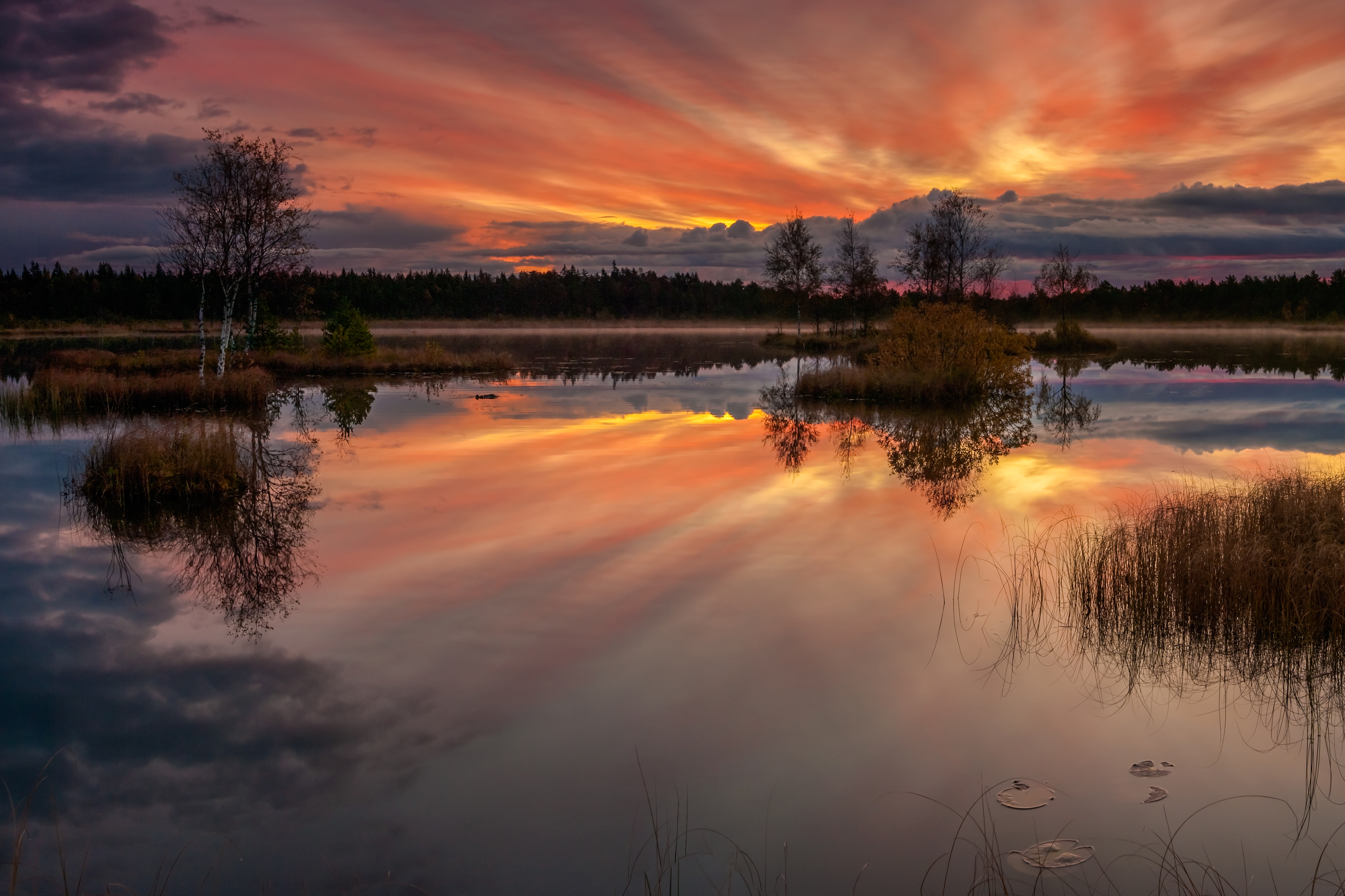 Lake Laanemaa at Orkjärve Nature Reserve, Estonia. Sunrise. Intense colors were present for just couple of minutes.